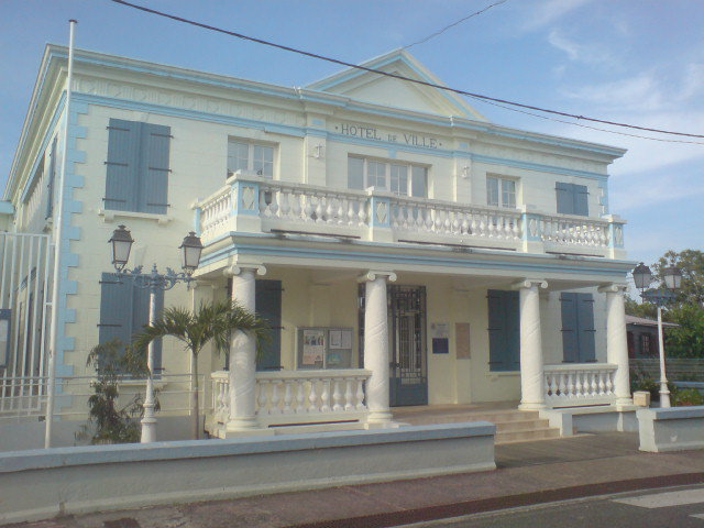 Port Louis city hall in Guadeloupe